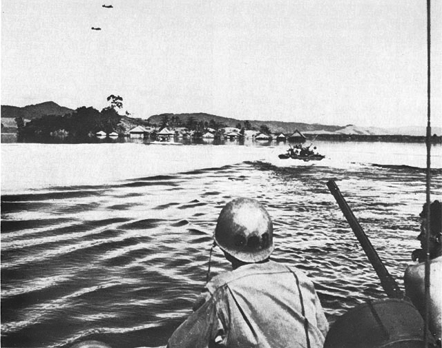 LVT'S crossing lake Sentani near Hollandia. Note Fifth Air Force B-25's overhead. (Operation Reckless, April 1944)